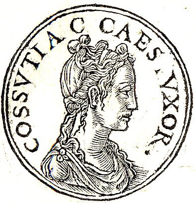 Cossutia was a plebeian girl of wealthy equestrian family, a fiancée and possibly first wife of Julius Caesar.